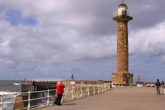 Whitby lighthouse and West Pier. It was sunny but very windy that day!